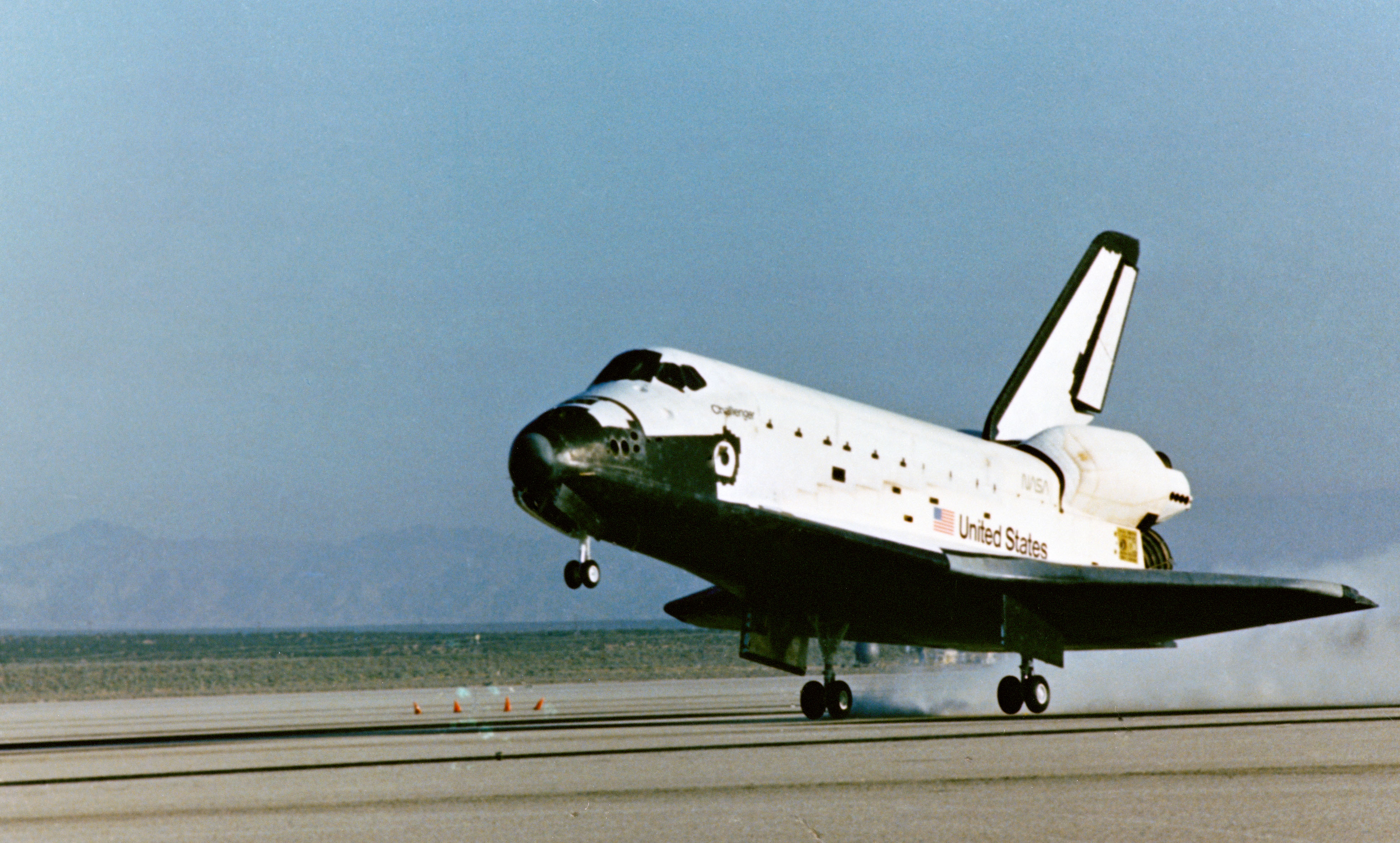 (June 24, 1983) Space Shuttle Challenger's STS-7 mission landed on June 24, 1983 at Edwards Air Force Base, CA. Image # : s83-35790